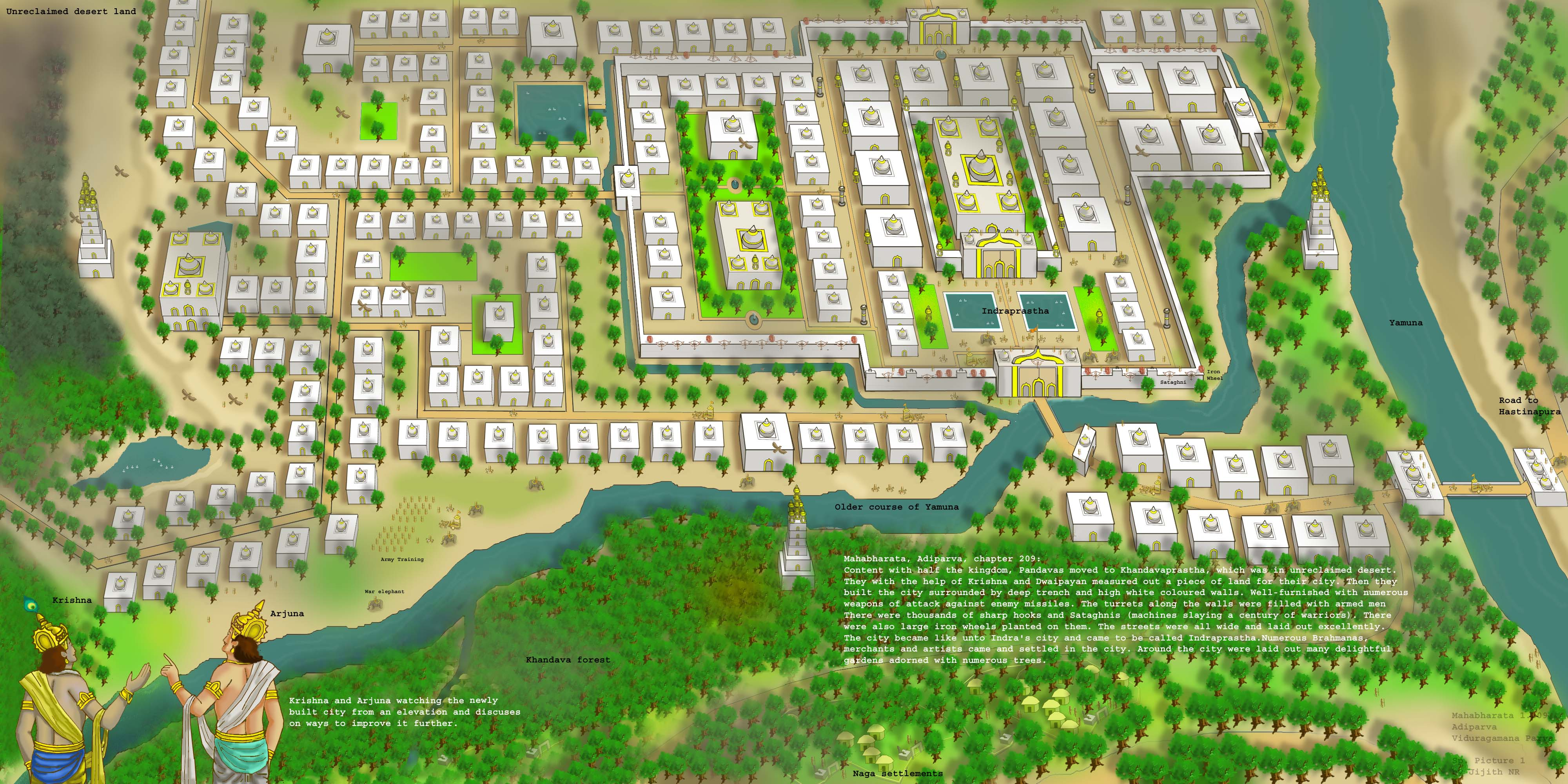 Indraprastha, a bird's eye view, observed by Arjuna and Krishna from an elevated ground.